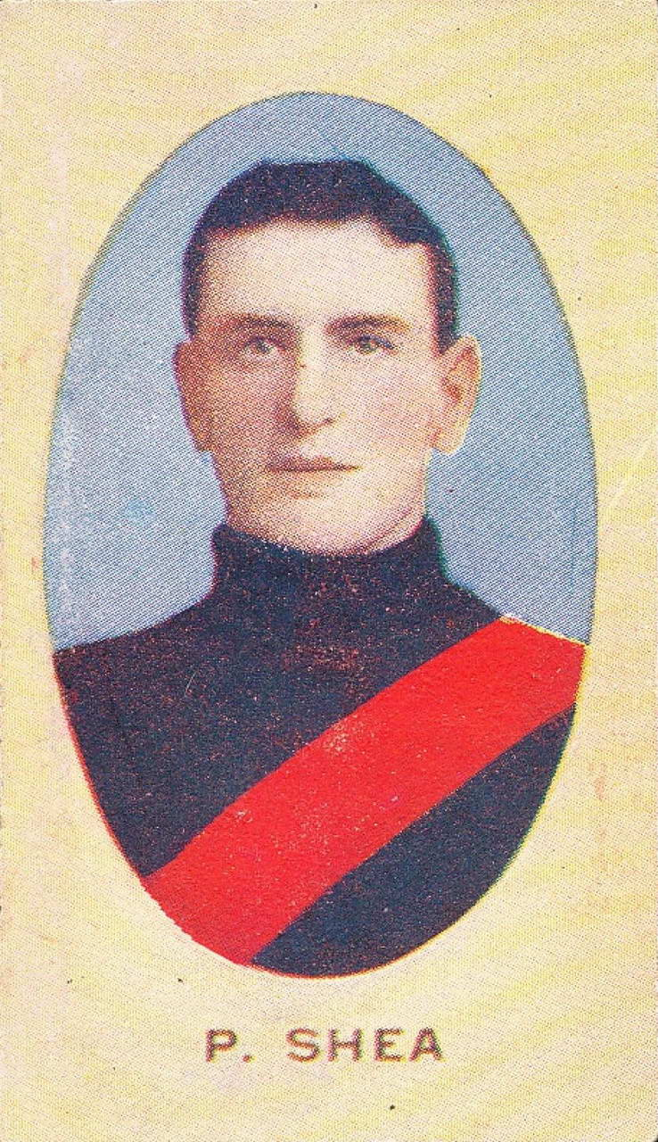 Cigarette card of Paddy Shea from the Sniders & Abrahams 1910 series